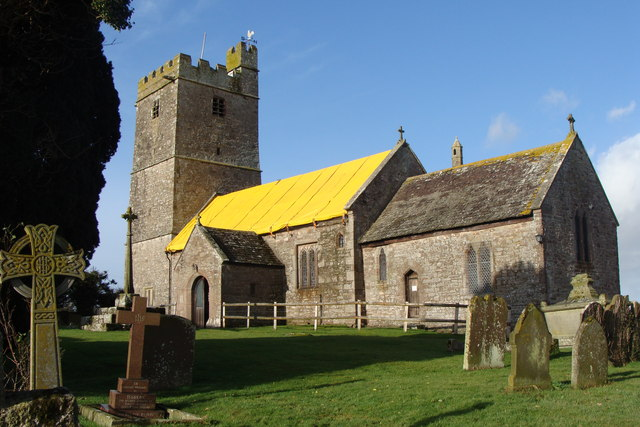 Llandenny Church in winter sunshine - with sunshine roof! The full dedication is The Church of St John the Apostle and Evangelist, Llandenny.